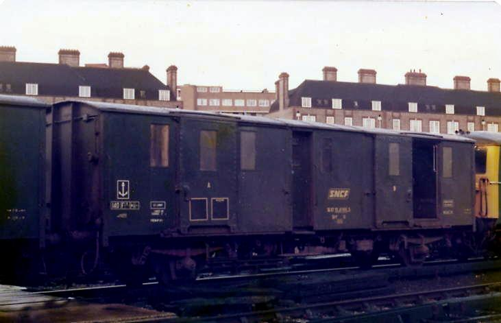 SNCF type "Nord" Night Ferry van at the Grosvenor Road carriage shed outside Victoria Station in London, 1977.